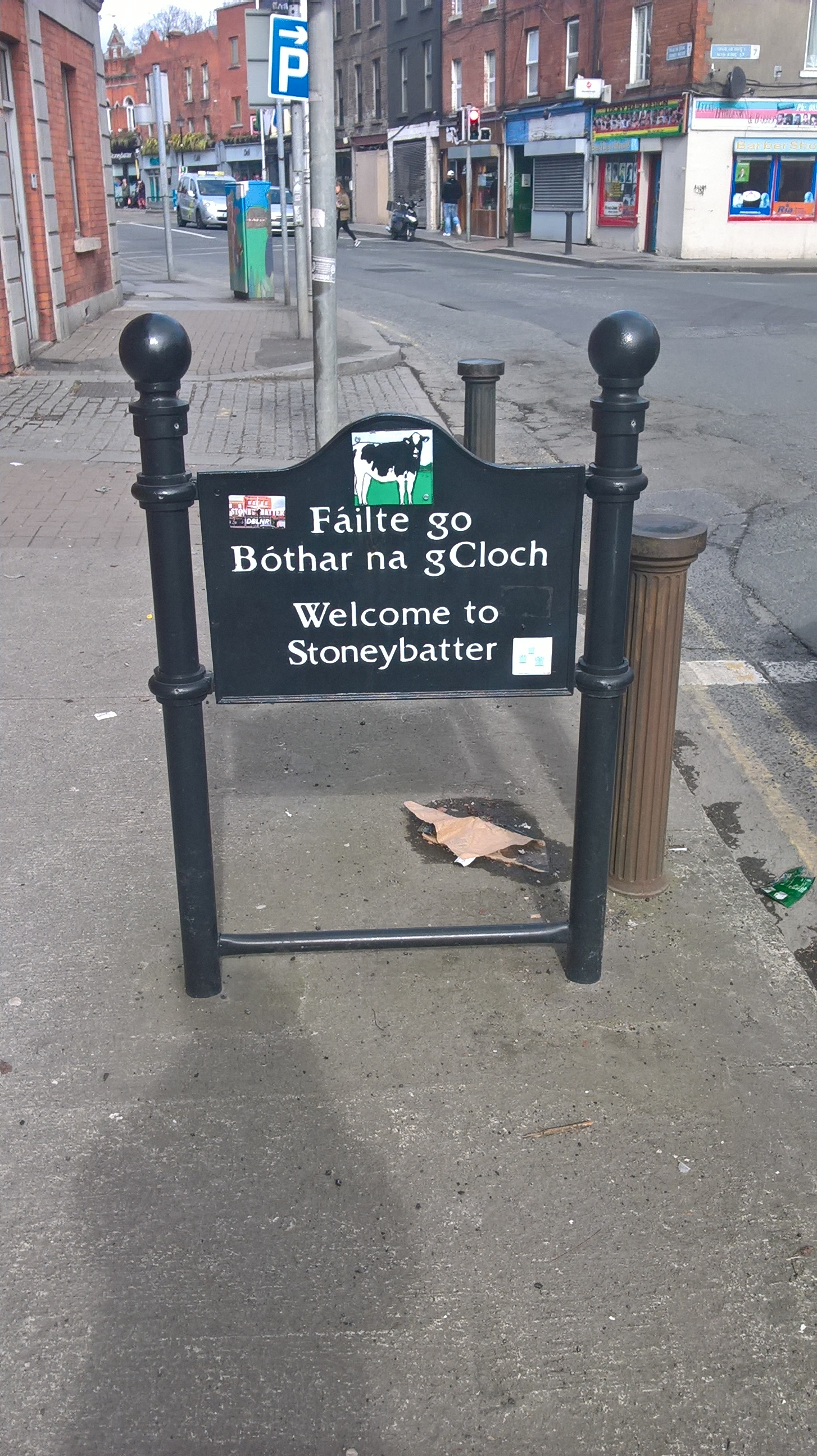 Bilingual Irish/English welcome to Stoneybatter sign.